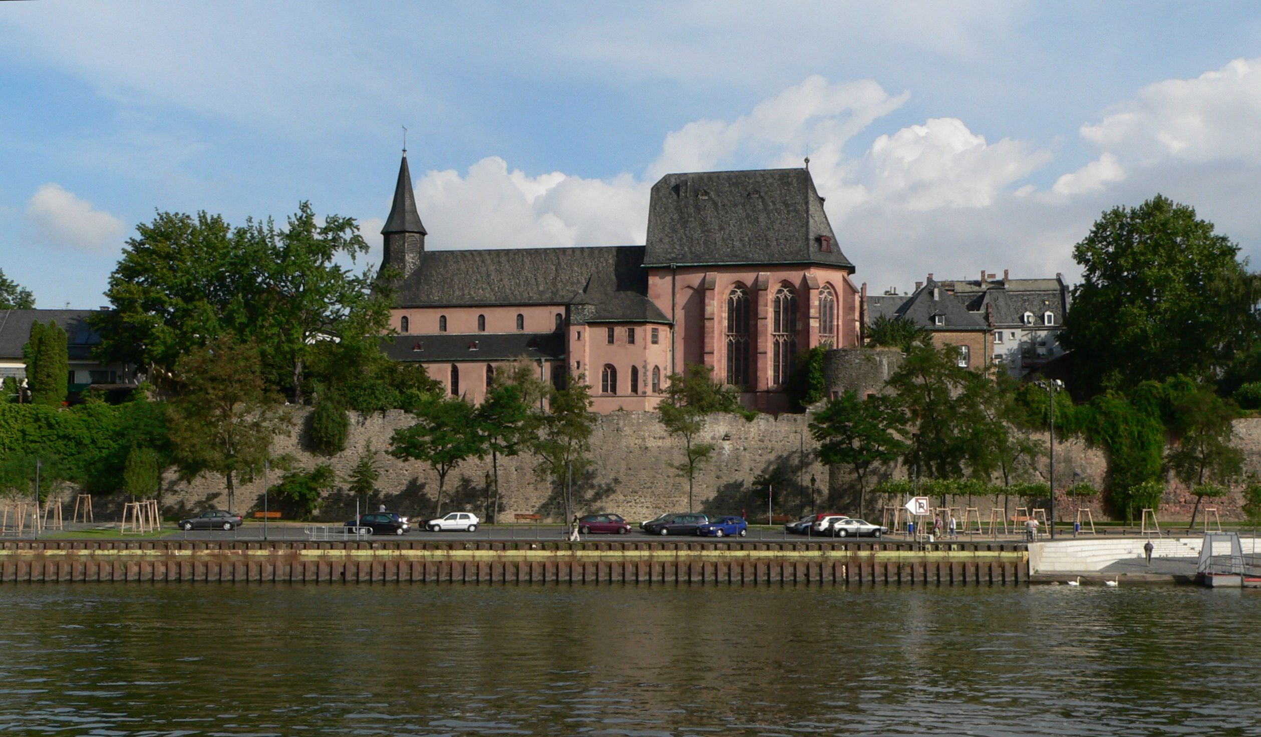 South facade of St. Justin's in Frankfurt-Höchst with part of the defensive wall. On the left side the Carolingian basilica from 830 and on the right side the attached gothic choir from 1442